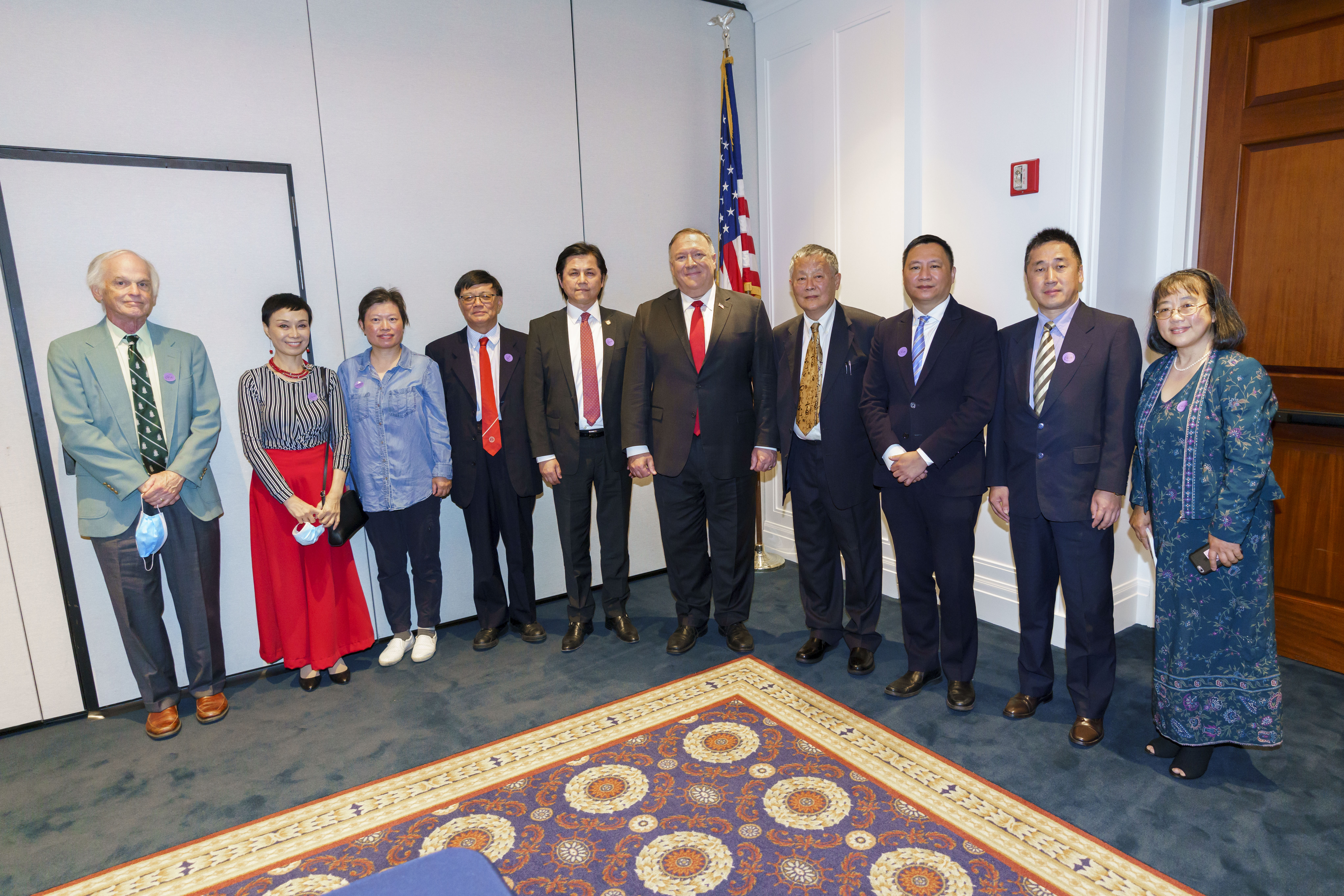 Secretary of State Michael R. Pompeo meets with USCIRF Commissioner Nury Turkel and Chinese dissidents (including Wei Jingsheng and Wang Dan) and members of the diaspora in Yorba Linda, California, on July 23, 2020, after his "Communist China and the Free World's Future" speech. [State Department photo by Ron Przysucha/ Public Domain]